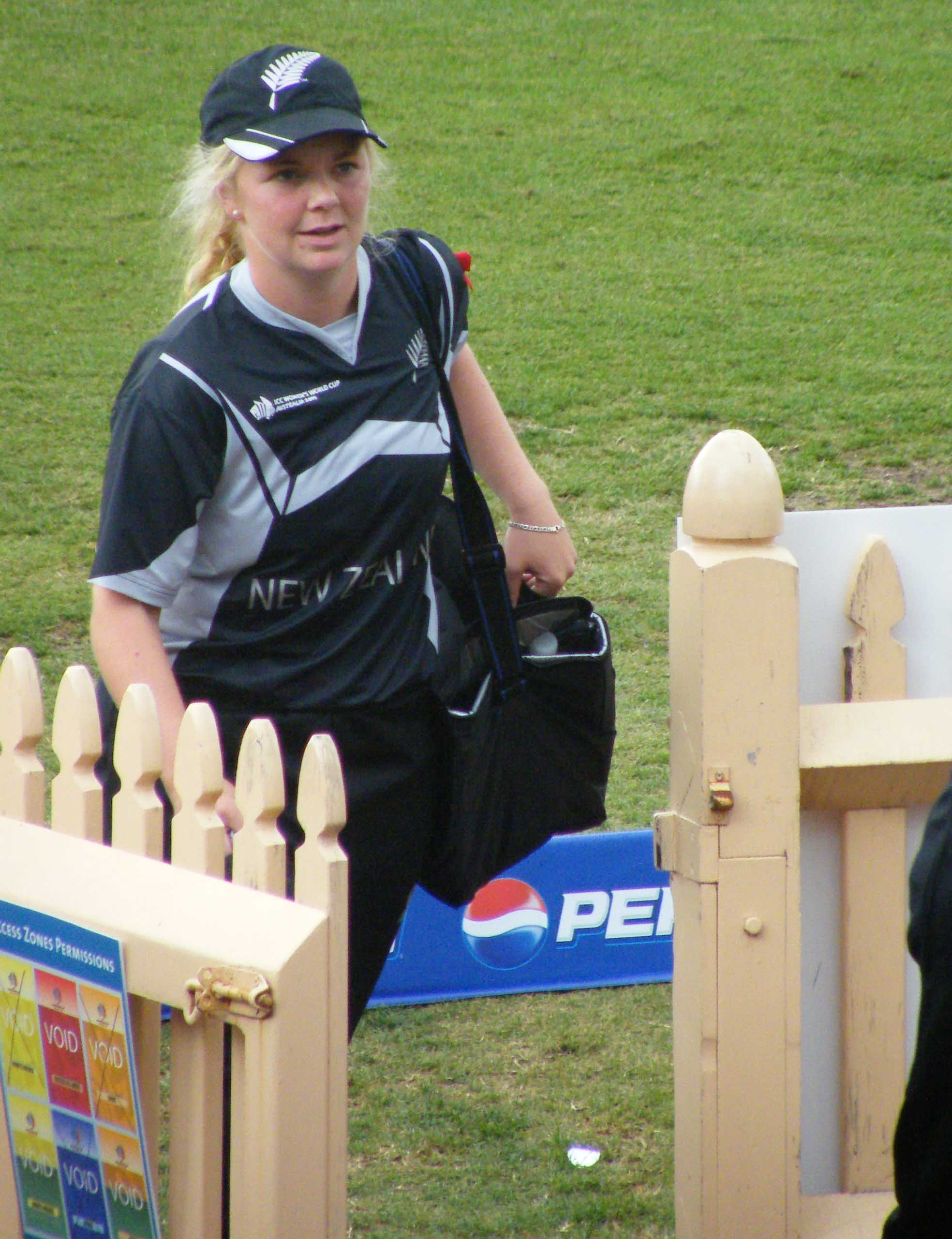 Lucy Doolan of New Zealand - ICC Womens Cricket World Cup - Sydney, March 2009.